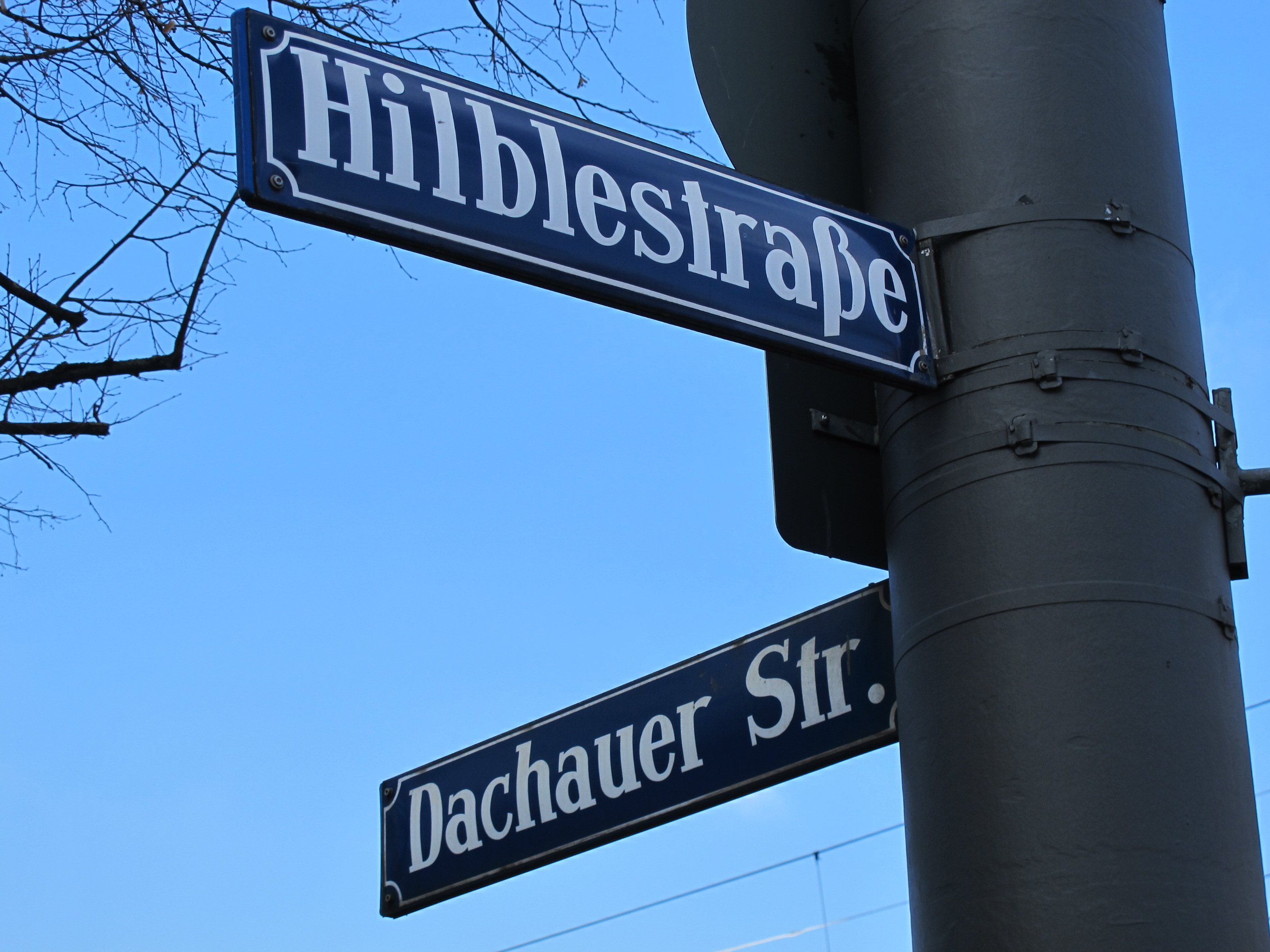 Street sign Hilblestraße